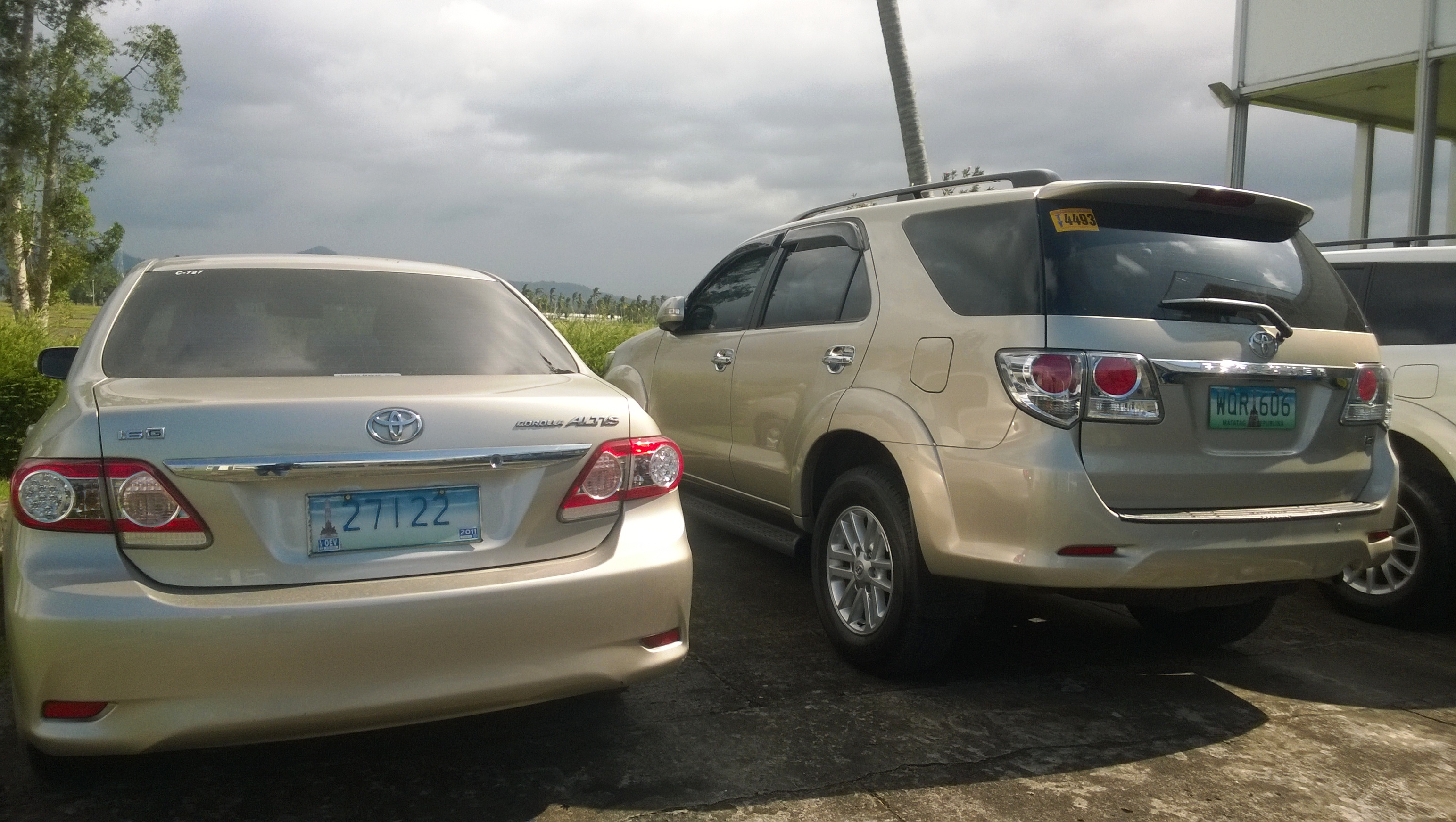 A Toyota Corolla Altis sedan owned by the International Rice Research Institute with diplomatic-OEV plates side-by-side a green-plated (private) vehicle. Notice the difference in the placement of the Rizal monument.